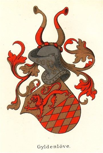 Coat of arms of the Norwegian family of Gyldenløve